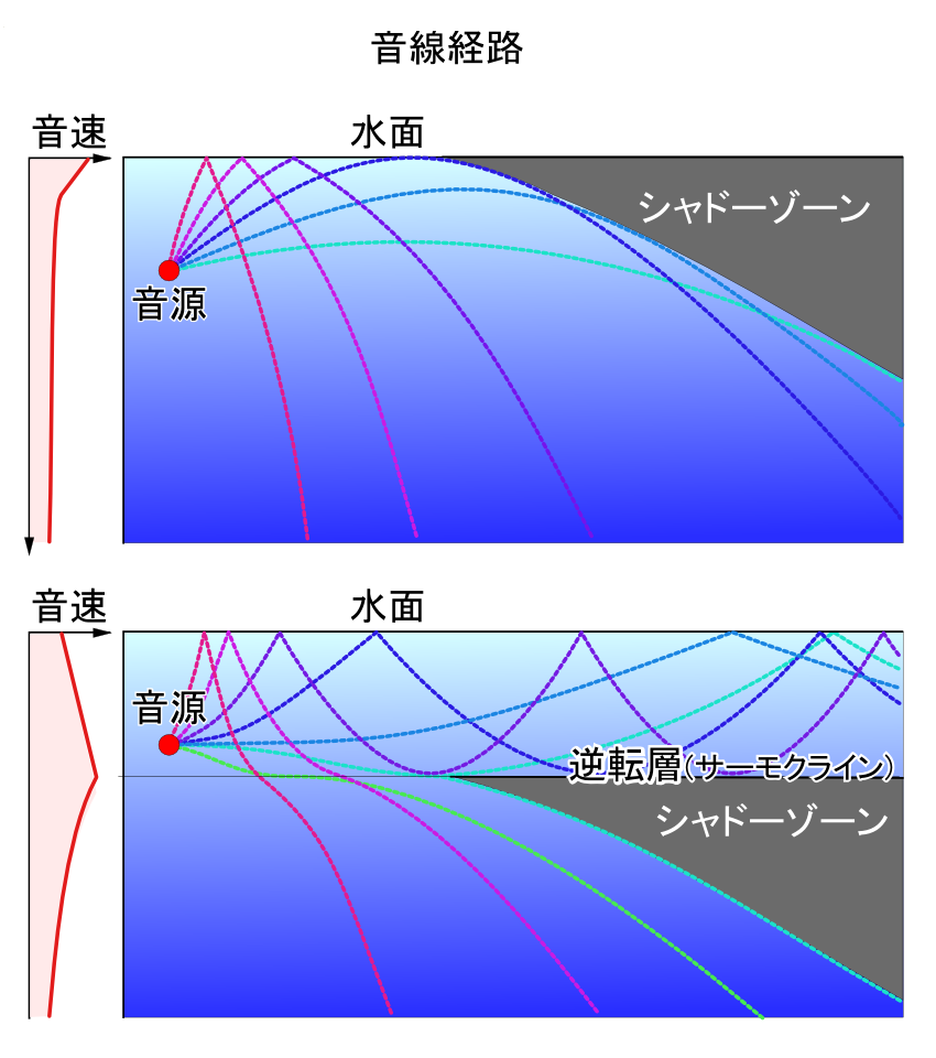 Sonicspeed under the water chart with Japanese